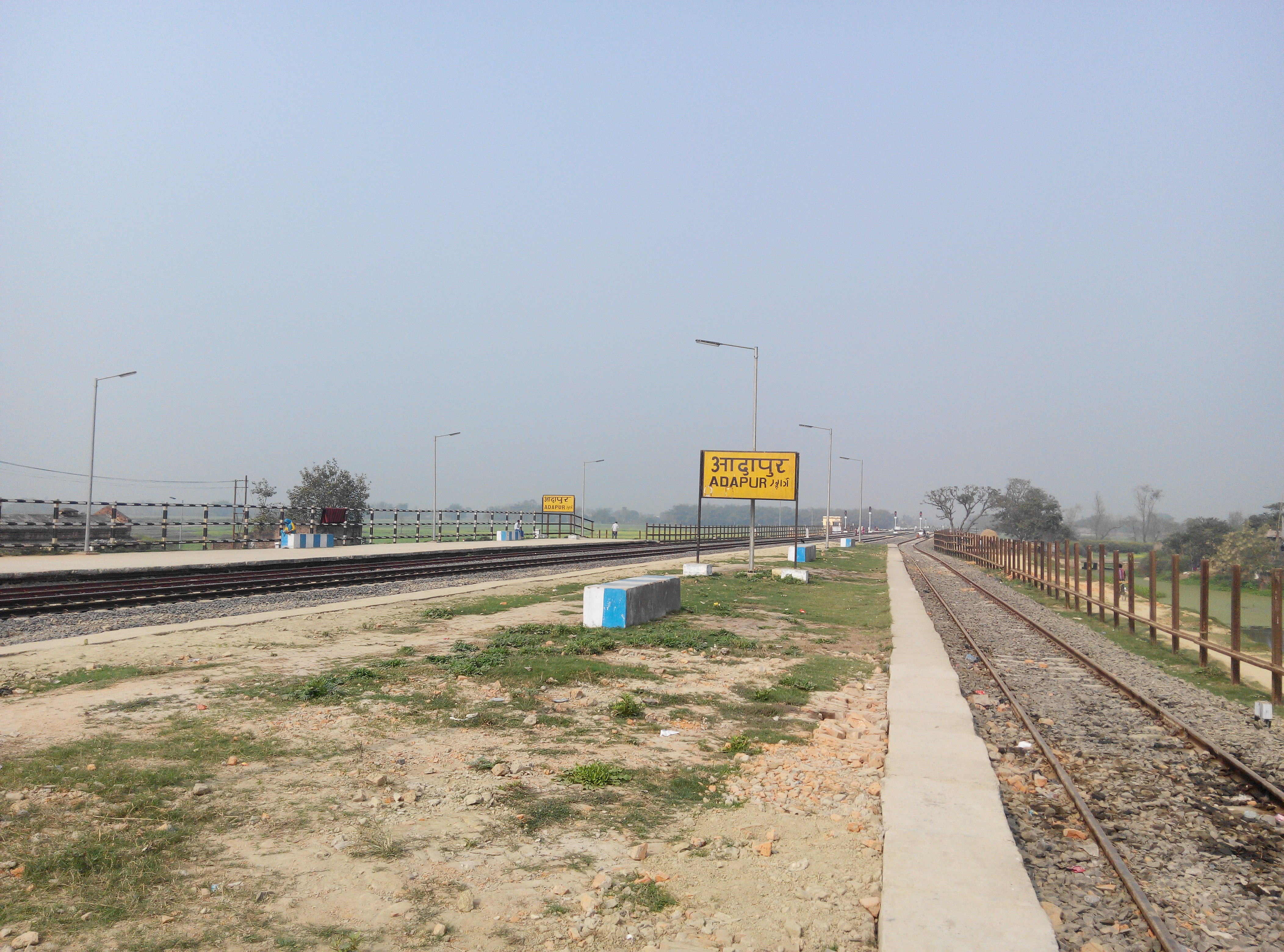 This station is situated on Darbhanga-Raxaul broad gauge railway line launched in 2014.